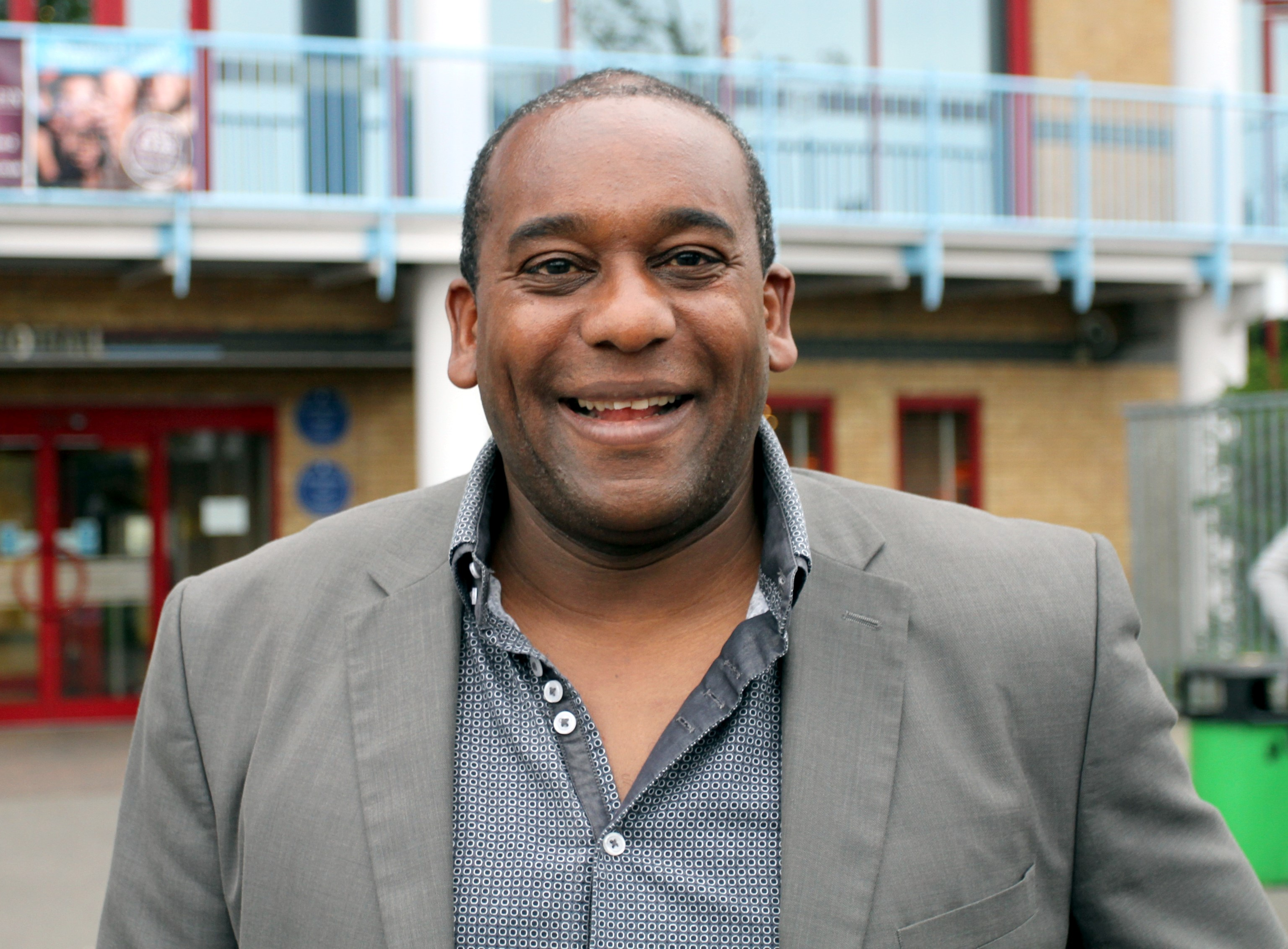 George Parris at Upton Park 02 May 2015